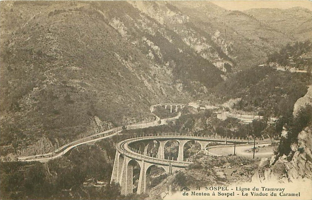 The viaduc du Caramel and in the background the viaduc du Carrei on the former tramway line between Menton and Sospel (Alpes-Maritimes, France).